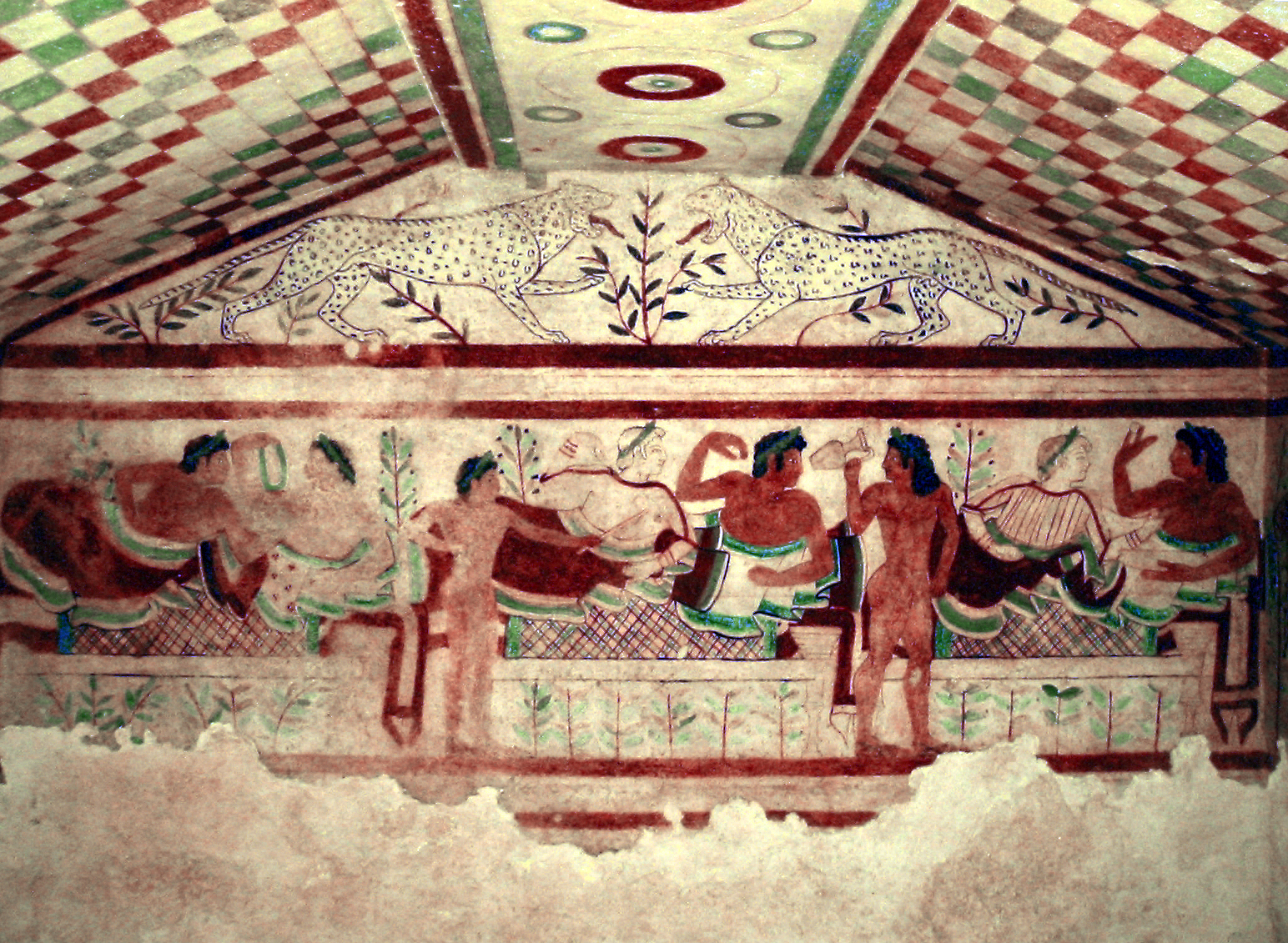 Wall painting in a burial chamber called Tomb of the Leopards at the etruscan necropolis of Tarquinia in Lazio, Italy.